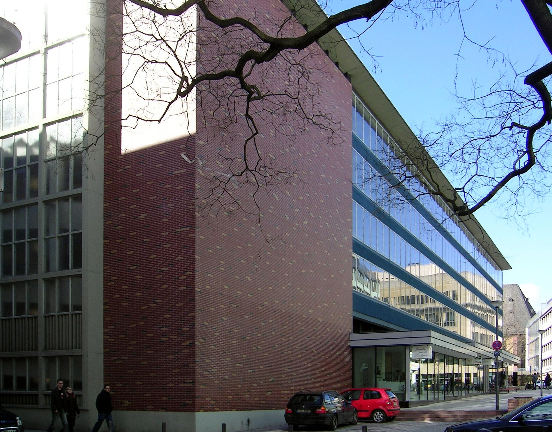 Hauptwache car park in Frankfurt at Kornmarkt